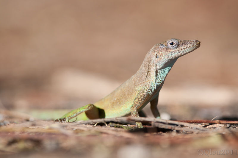 Anolis marmoratus setosus on Basse-Terre